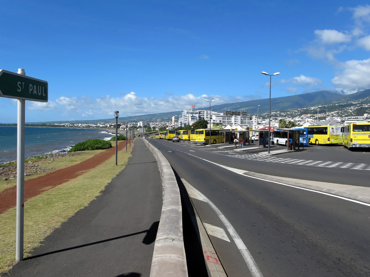 Saint-Denis: Central Bus Station "L'Ocean"